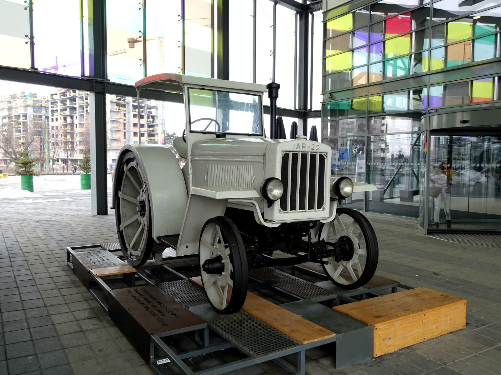 IAR-22, the first tractor built in Romania (a Hanomag license), late 1940s. On exhibit at Coresi shopping mall, Brasov